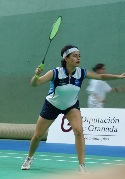 Granada, Spain.